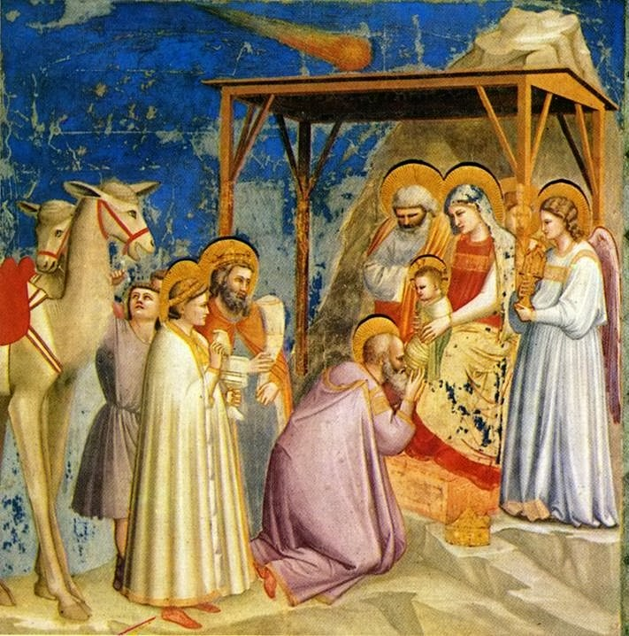 Life of the Virgin